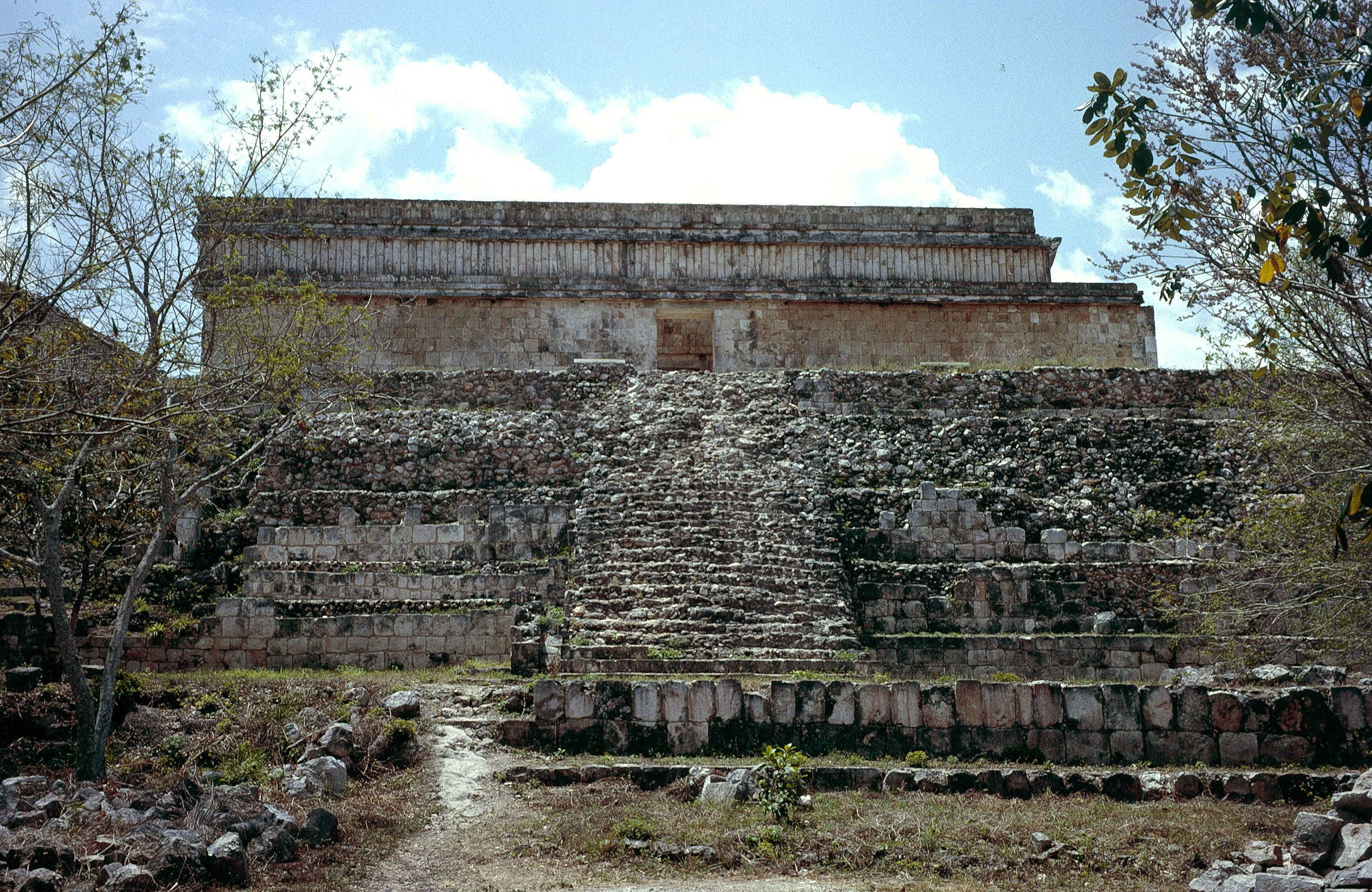 Uxmal, Yucatan, Mexico: Casa de las tortugas, north stairway